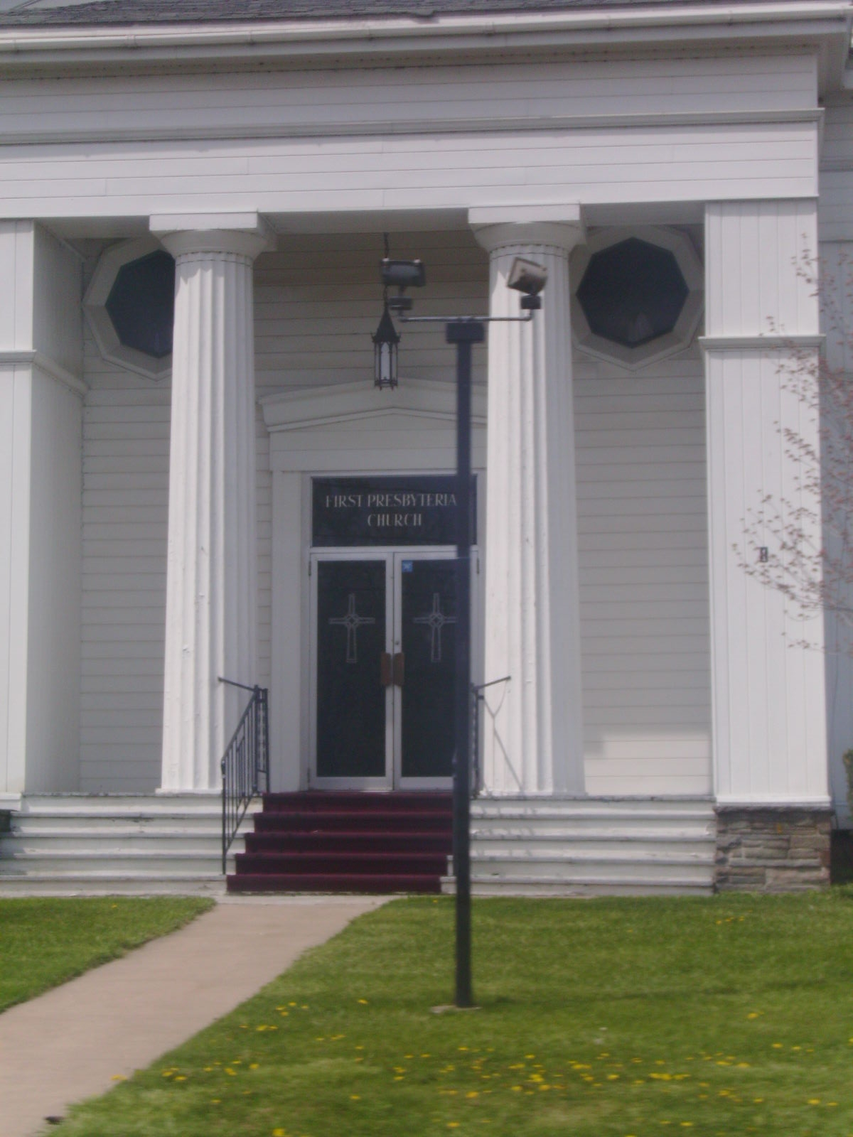 A view of the front of the Marcellus First Presbyterian Church in Marcellus, New York from NY State Route 174.